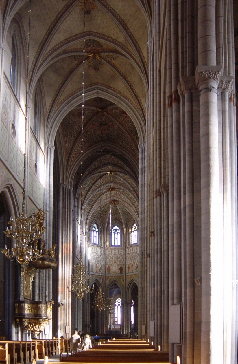 I took this picture in 2004.